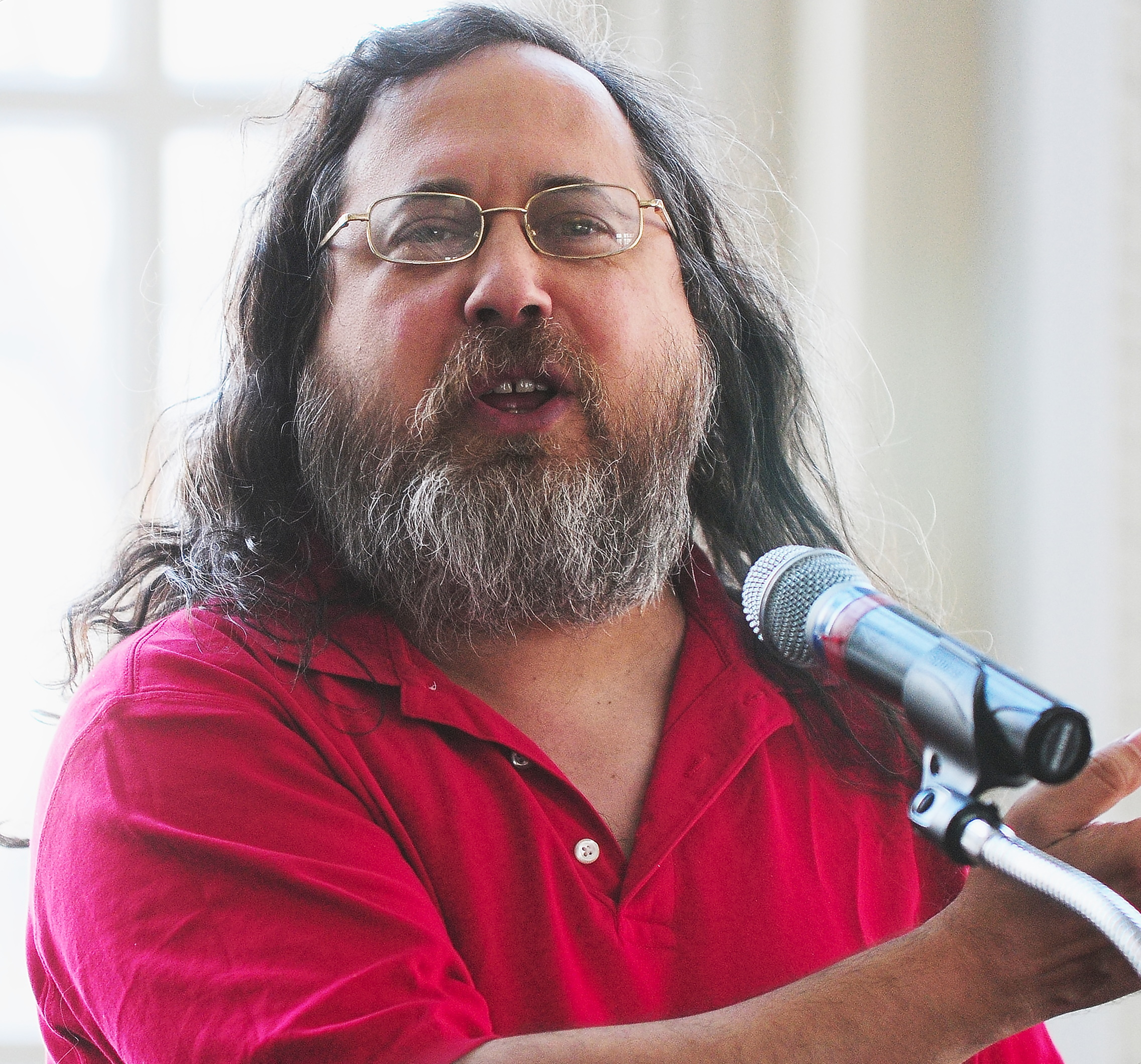 Richard Stallman gives a talk on Free Software and Copyright law at The University of Pittsburgh. The talk was given William Pitt Union lower lounge.